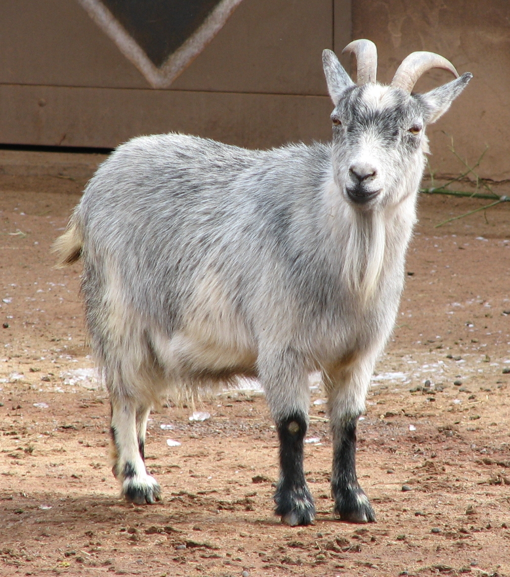 African Pygmy Goat